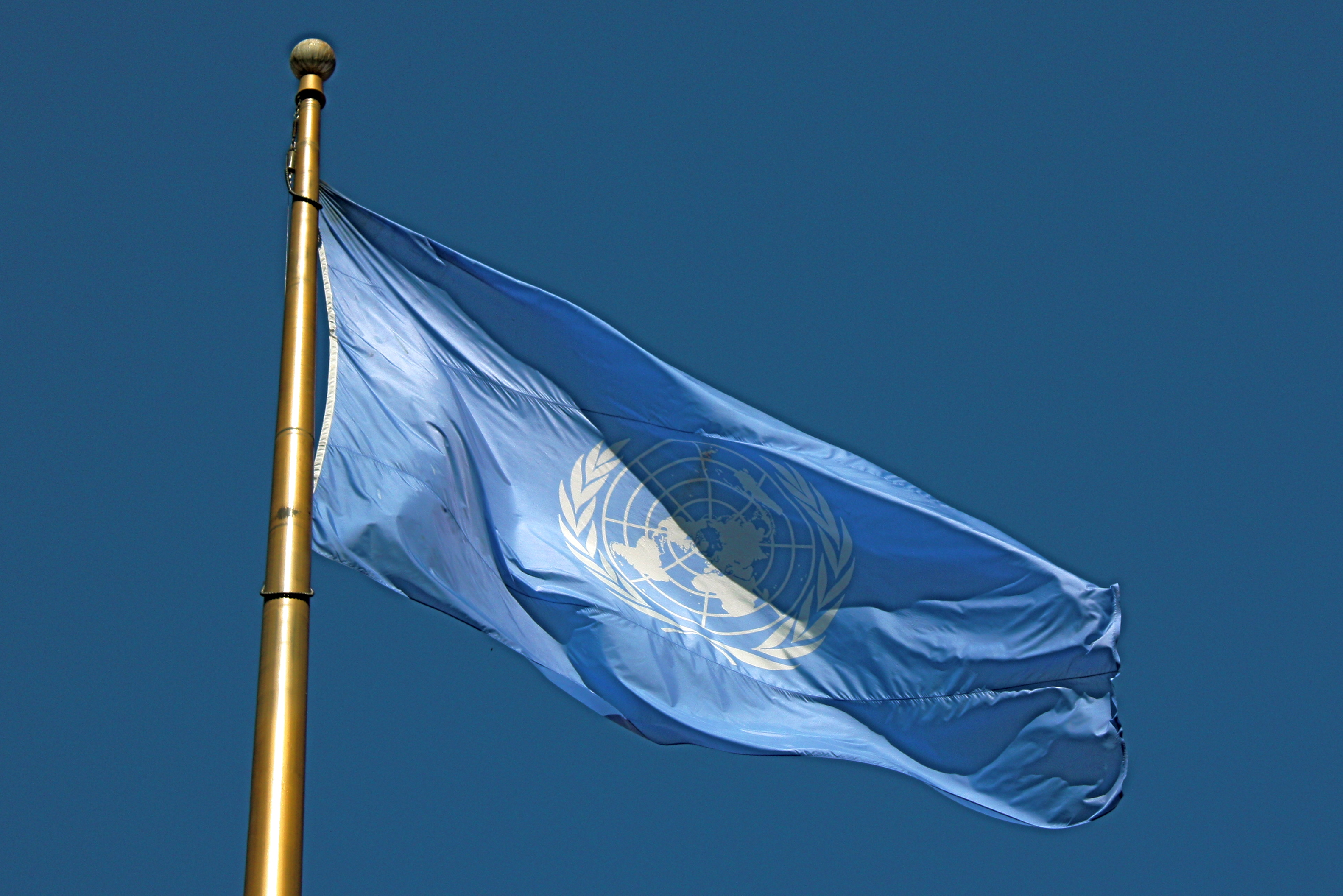 The flag of the United Nations, flying at United Nations Plaza in the Civic Center, San Francisco, California, United States of America